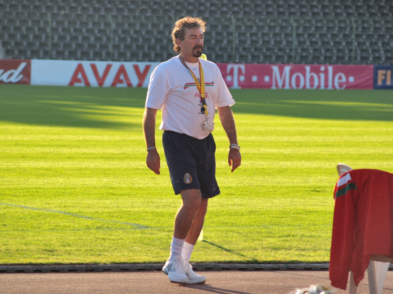 Ricardo Lavolpe during his stint as coach of the Mexican Soccer National Team.